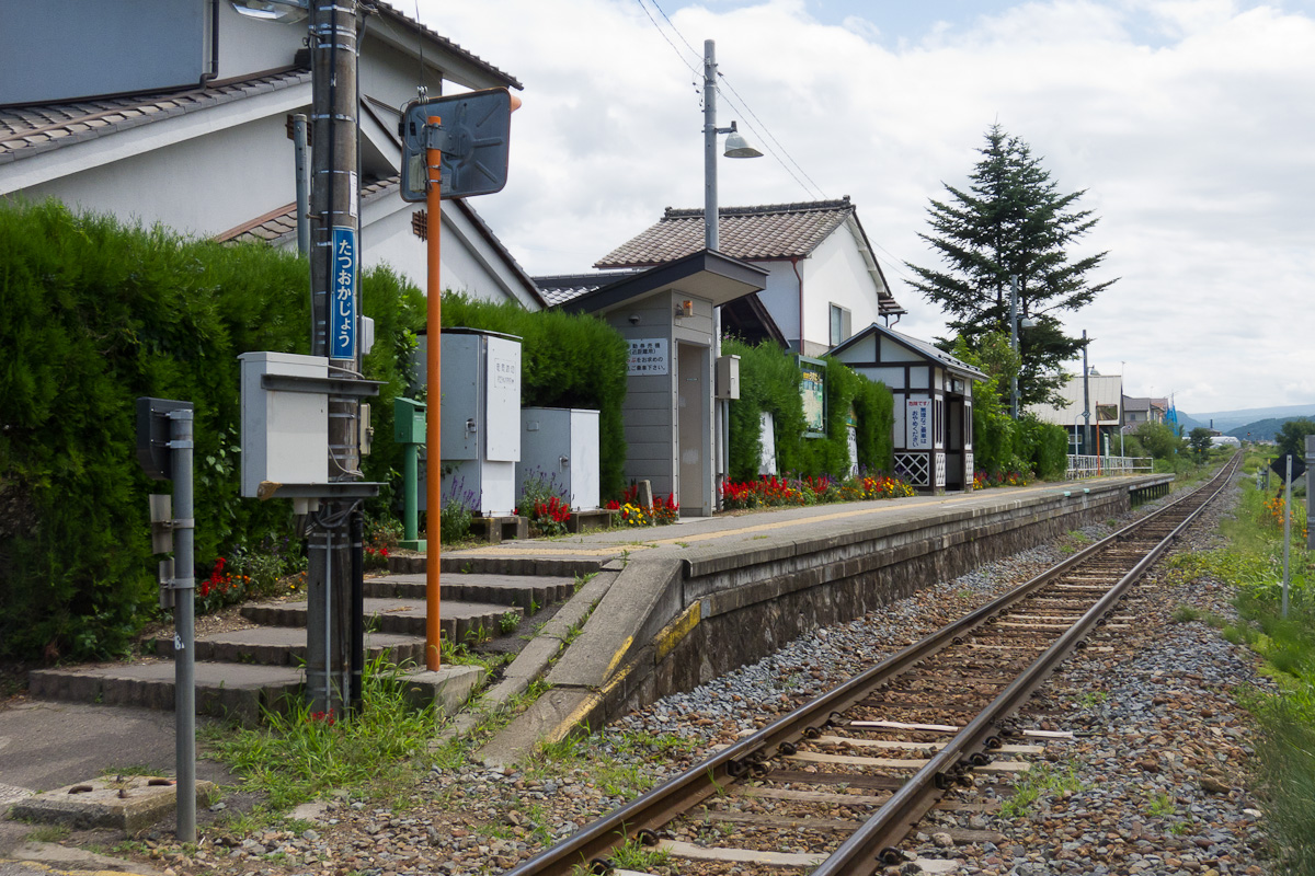 Tatsuokajo Station on JR East Koumi Line